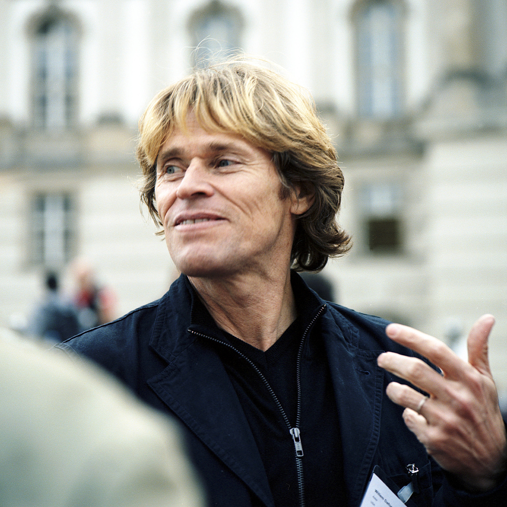 Actor Willem Dafoe (Platoon, Spiderman) preparing for his moderation at the Table of Free Voices. Photo Credit: Steffen Roth